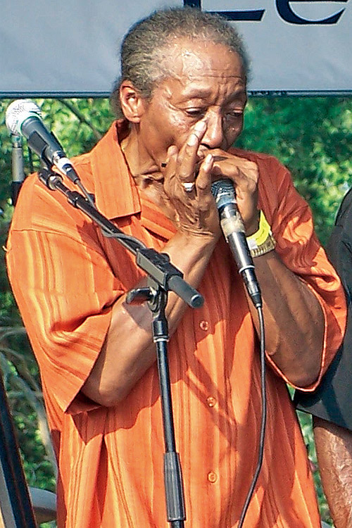 Willie "Big Eyes" Smith at the Master Musicians Festival in Somerset, Ky., July 19, 2008